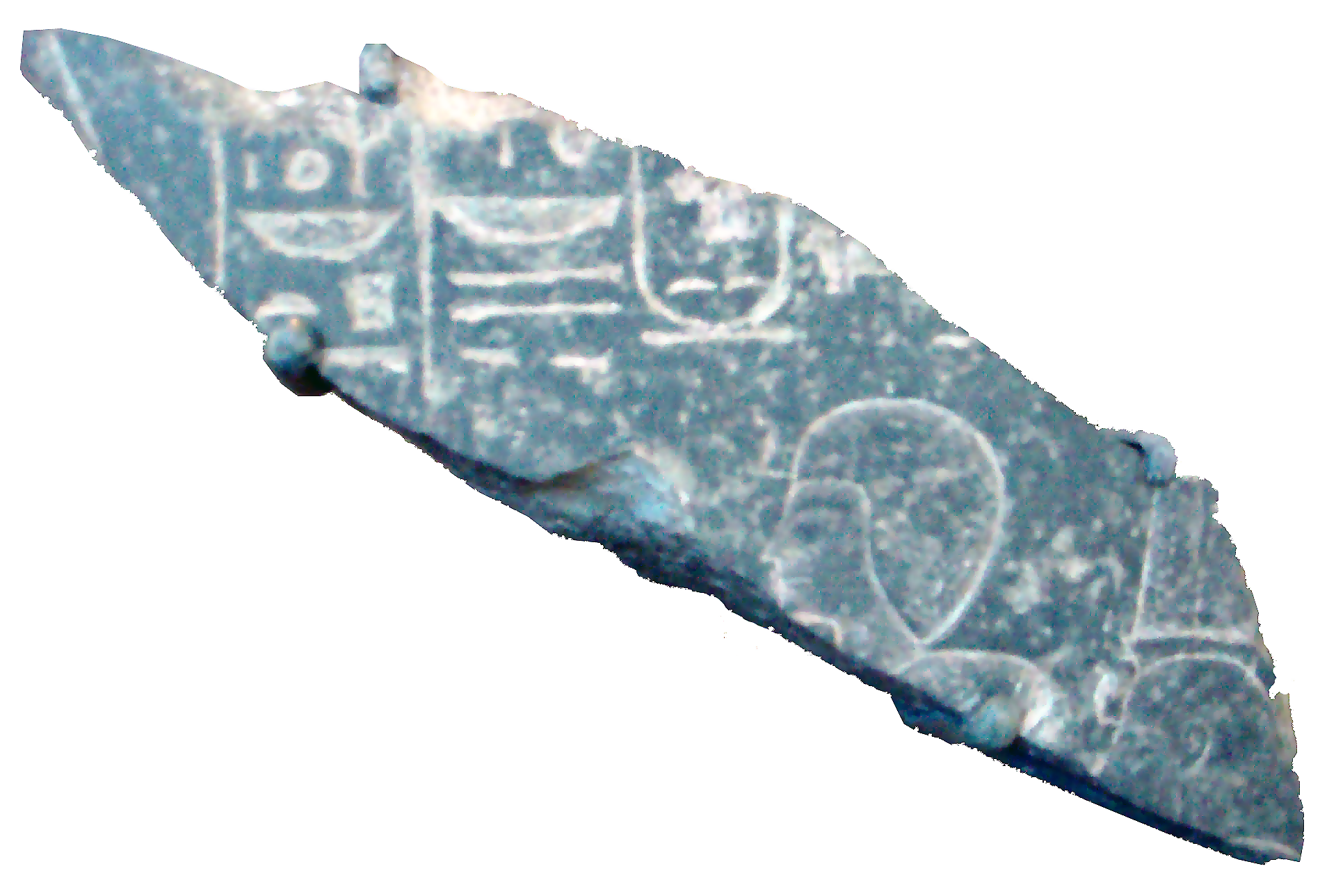 Relief fragment depicting Ahmose I and his queen. Dynasty 18, circa 1539-1514 B.C.